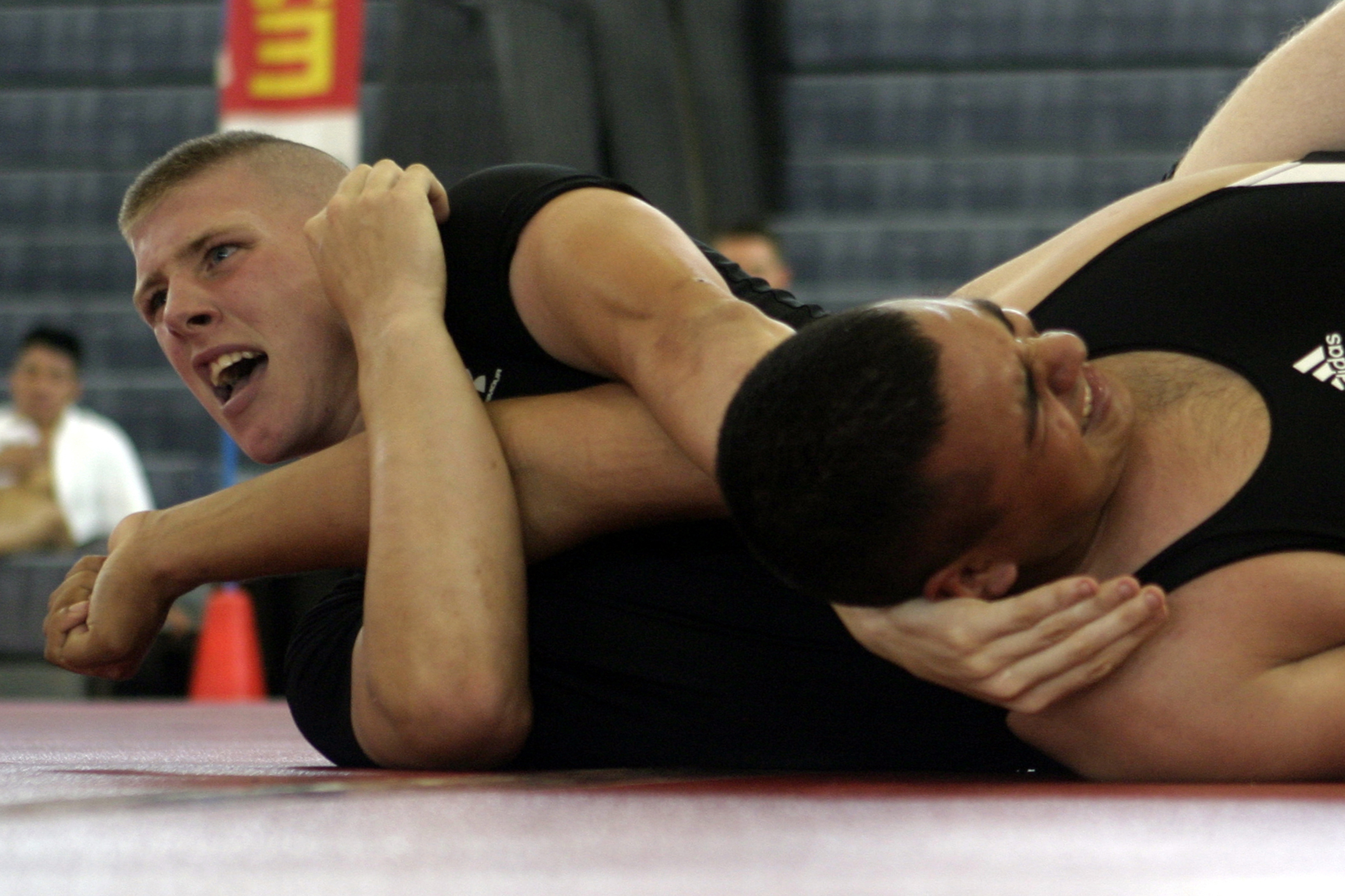 Mark Mullen applies an arm bar to Ernesto Martinez during the Open “Tap Out” Tournament at Camp Schwab’s Power Dome Gym October 22. The tournament featured 30 competitors in five weight divisions ranging from 132 pounds to 210 pounds.